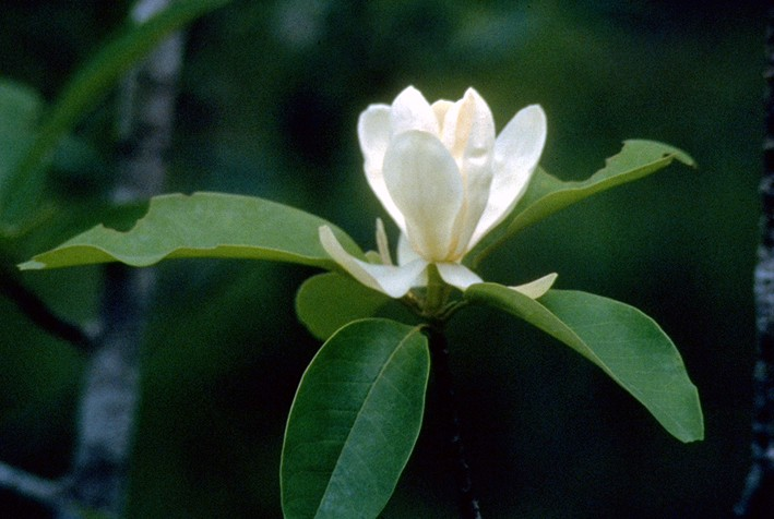 Flower of Magnolia virginiana, sweetbay